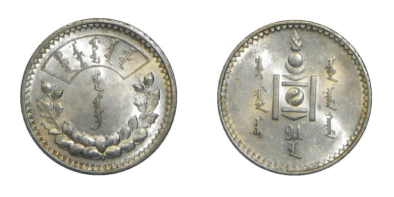 Mongolia 1Tukhrik 1925